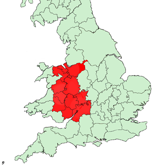 A map of the Welsh Marches